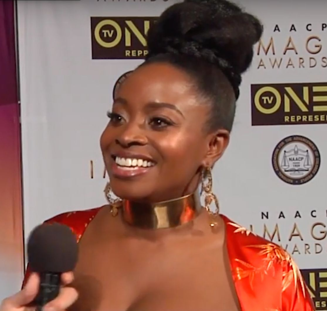 Idara Victor on Hollywood Social Lounge